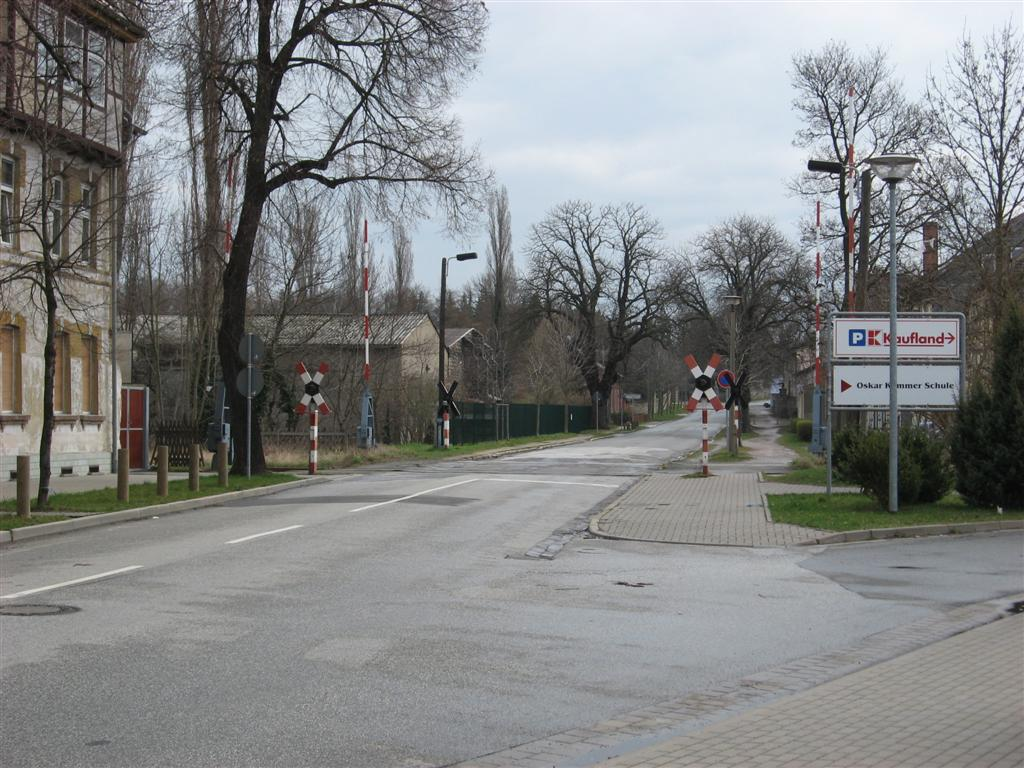 level-crossing at Quedlinburg: Badeborner Weg